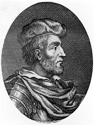 17th cent. portrait of Donnchad I (Duncan I)